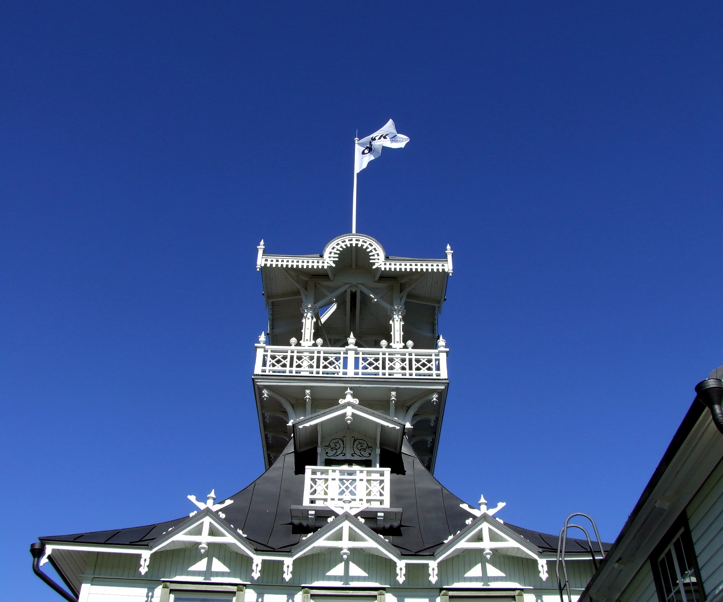 The Villa Hannala in Toppilansaari, Oulu, Finland. The villa was built in 1859. The decorative exterior with the tower was done in 1890's. Nowadays villa hosts a café.